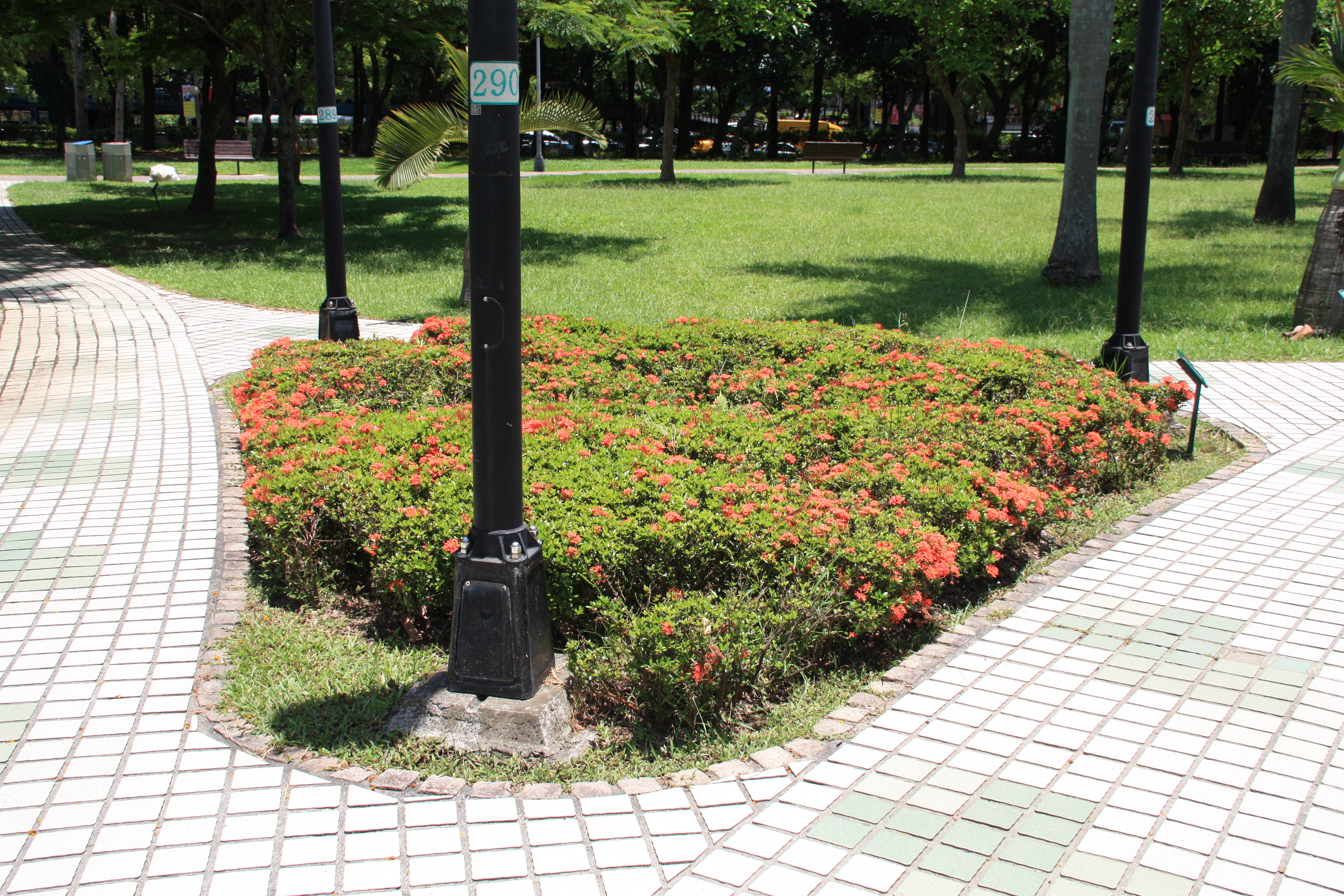 Táiběi Da-an District DàĀn Forest Park Ixora williamsii cv. Sunkist